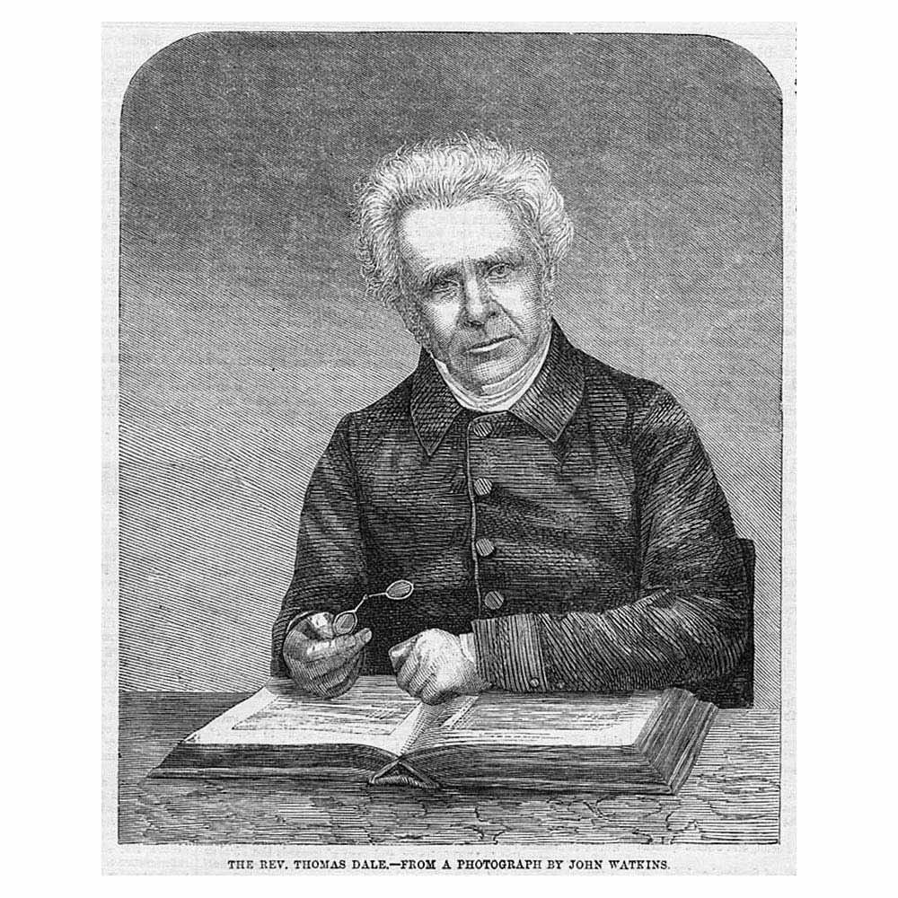 Rev Thomas Dale St Pancras 1859 Ill. London News